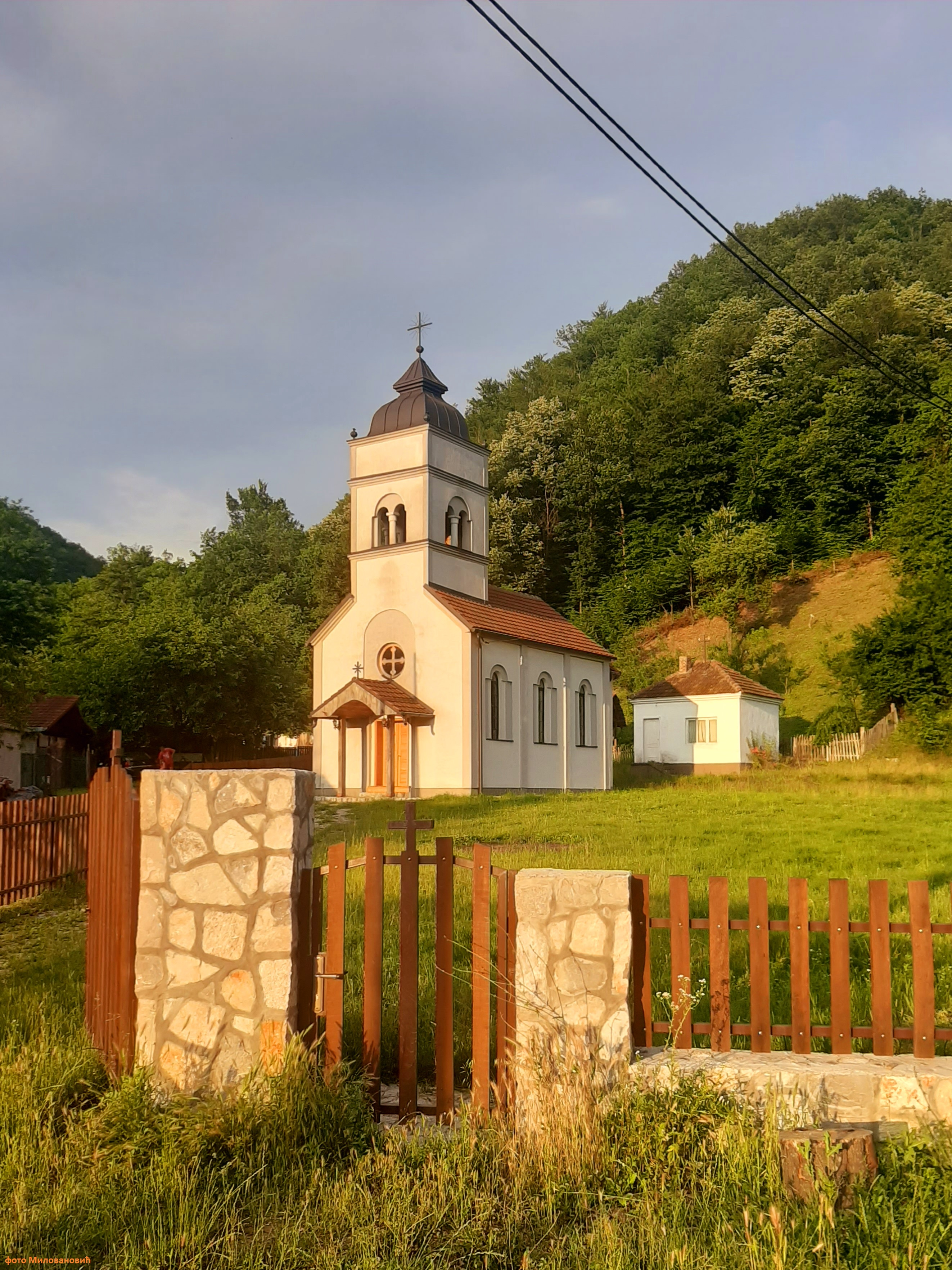 Church in Mosna